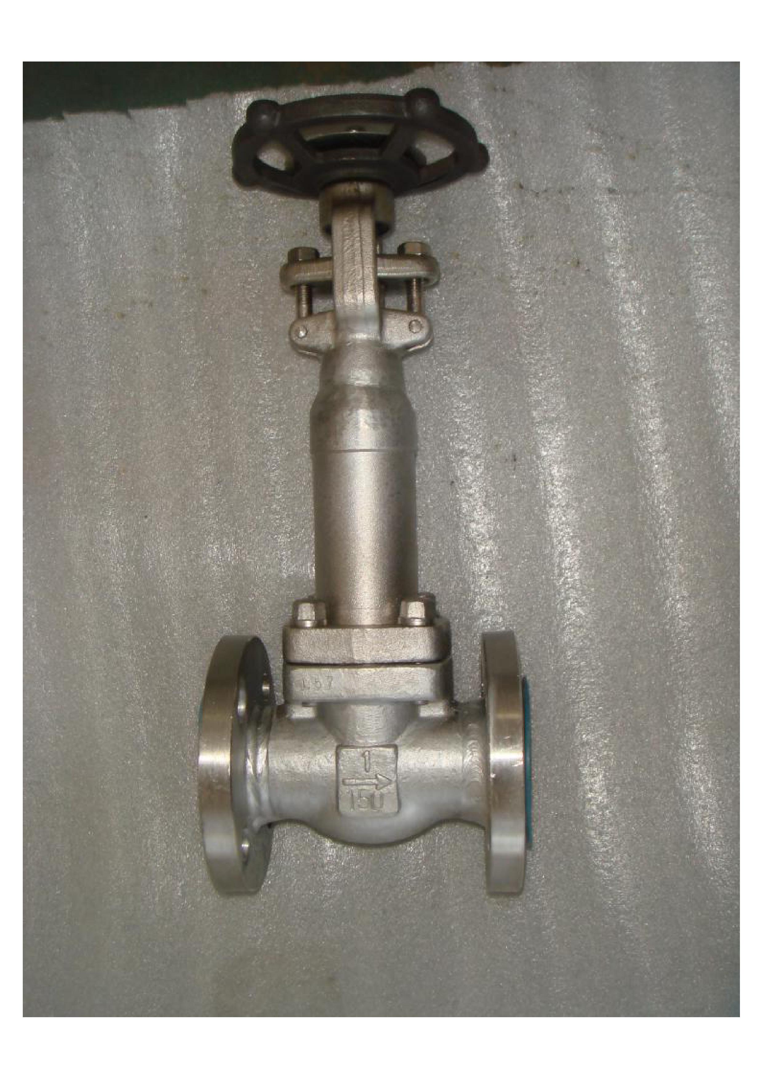 Super duplex valve. A182 F55 duplex valves in bellows seal globe valve configuration. A182 F55 forged super duplex is equivalent to cast A890 6A, or in the case of A182 F53 its equivalent to A890 5A. Updated standards refer to A890 6A super duplex as A995 6A. Super duplex valves are often used in seawater processes, such as desalination plants.